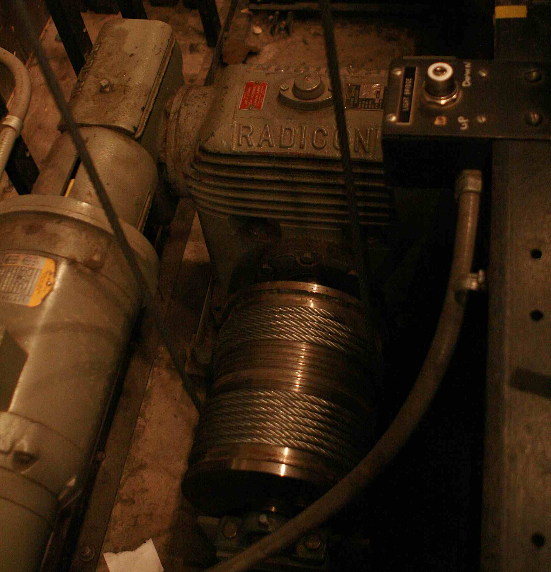 A fly system winch, used to raise and lower a high capacity electric batten.